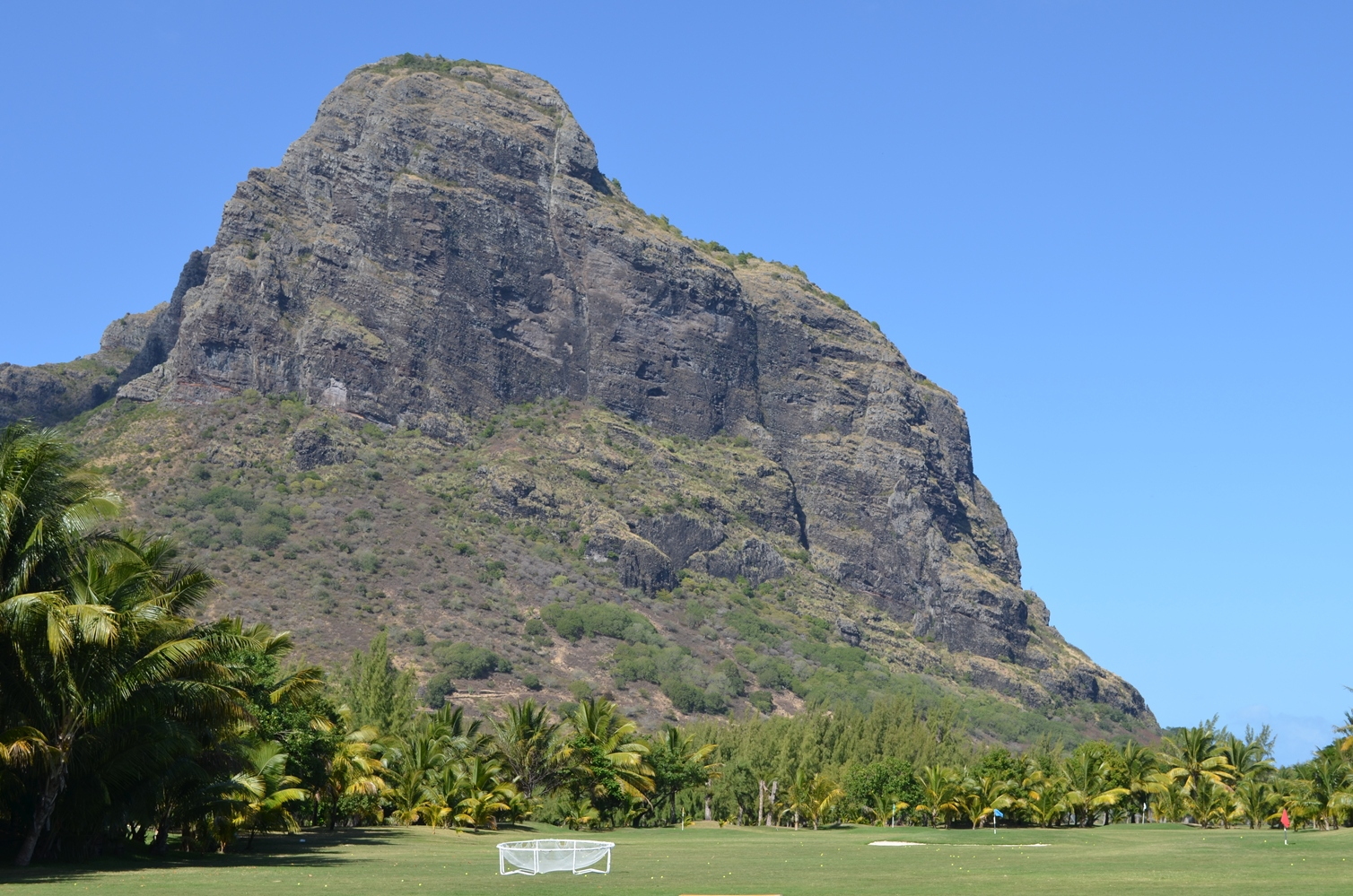 Le Morne and agolf course, Mauritius in 2012